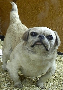 Author: Sarah Hartwell (Messybeast). Own work. Chinese Happa Dog from 19th Century, an ancestor of the modern Pekinese. Rothschild Zoological Museum, Tring, England.